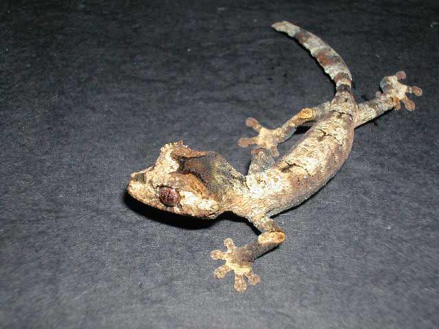 Uroplatus guentheri (juvenile), a gecko